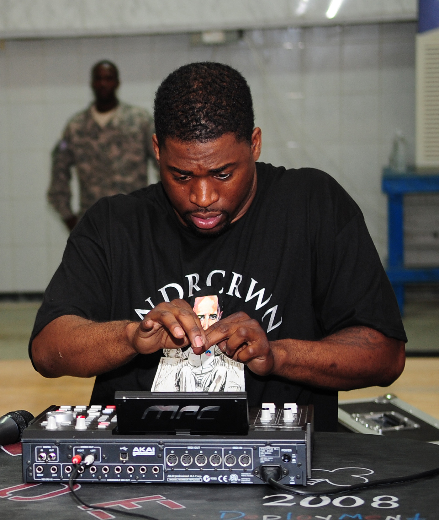 David Banner at Forward Operating Base Brassfield Mora, Iraq